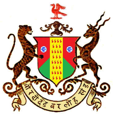 Coat of arms of Bijawar State Numismatics This work is in the public domain in India because its term of copyright has expired. The Indian Copyright Act applies in India, to works first published in India. According to The Indian Copyright Act, 1957 (Chapter V Section 25), Anonymous works, photographs, cinematographic works, sound recordings, government works, and works of corporate authorship or of international organizations enter the public domain 60 years after the date on which they were first published, counted from the beginning of the following calendar year (ie. as of 2020, works published prior to 1 January 1960 are considered public domain). Posthumous works (other than those above) enter the public domain after 60 years from publication date. Any other kind of work enters the public domain 60 years after the author's death. Text of laws, judicial opinions, and other government reports are free from copyright. Photographs created before 1960 are in the public domain 50 years after creation, as per the Copyright Act 1911. This file may not be in the public domain outside India. The creator and year of publication are essential information and must be provided. See Wikipedia:Public domain and Wikipedia:Copyrights for more details. This image shows a flag, a coat of arms, a seal or some other official insignia. The use of such symbols is restricted in many countries. These restrictions are independent of the copyright status.